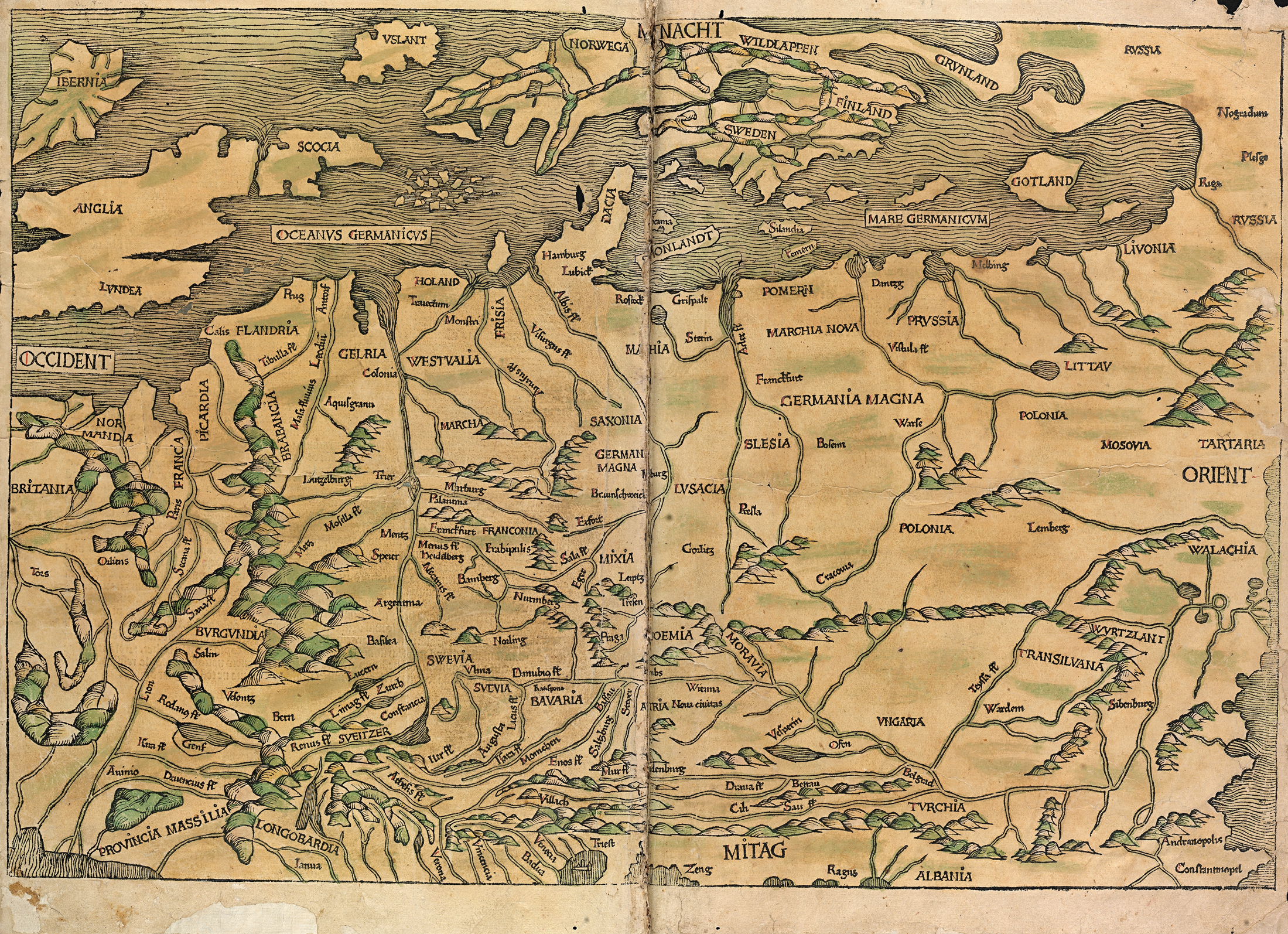 Illustration from the Nuremberg Chronicle (Latin copy in Sao Paulo)